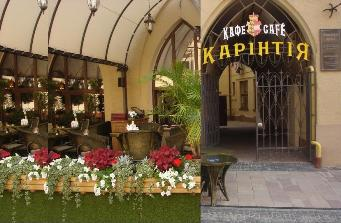 A photo of the German house in Chernivtsi